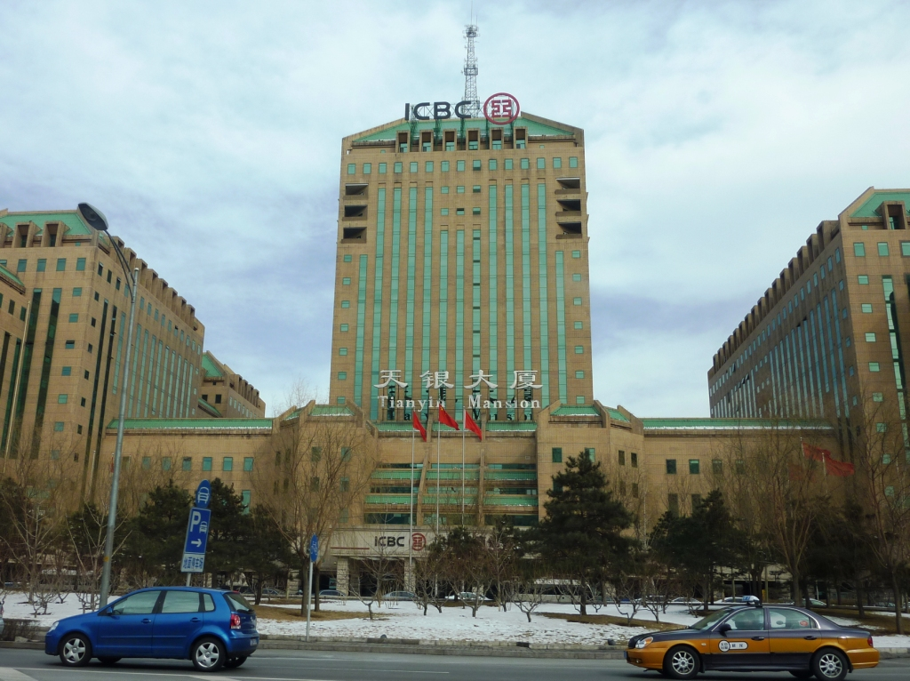 Tianyin Mansion in 2 Fuxingmen South Street, Beijing, with a ICBC branch located inside